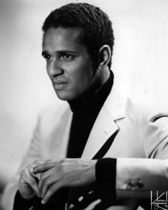 Publicity photo of pianist Andre Watts.